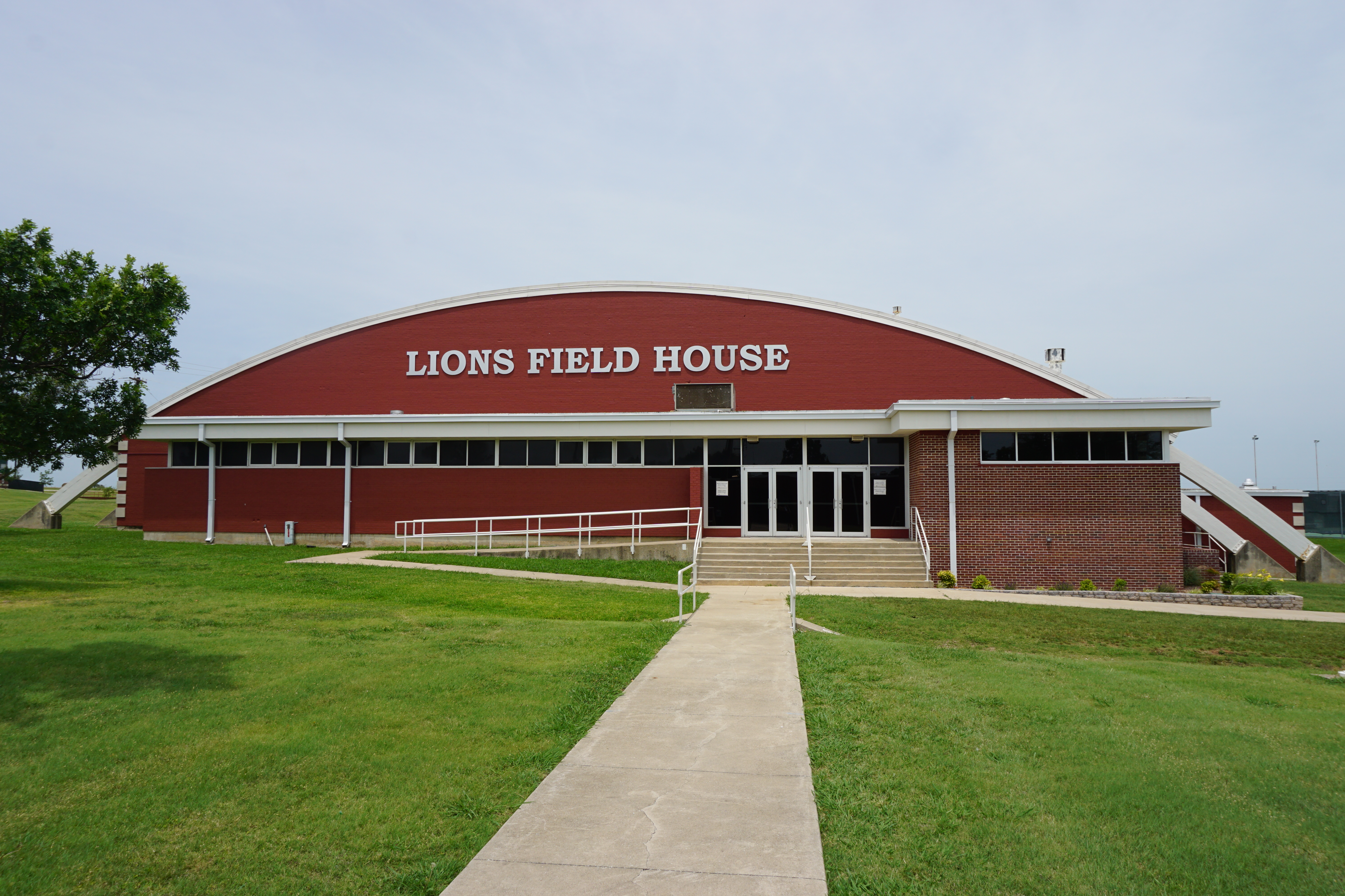 Lions Field House on the campus of North Central Texas College in Gainesville, Texas (United States).